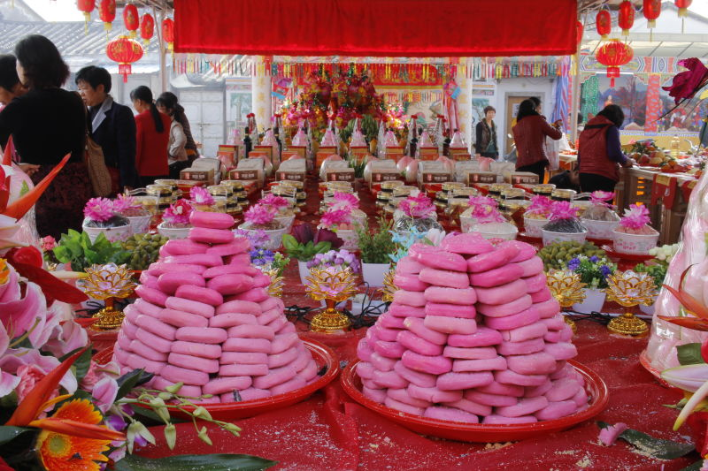 Tao kuishi